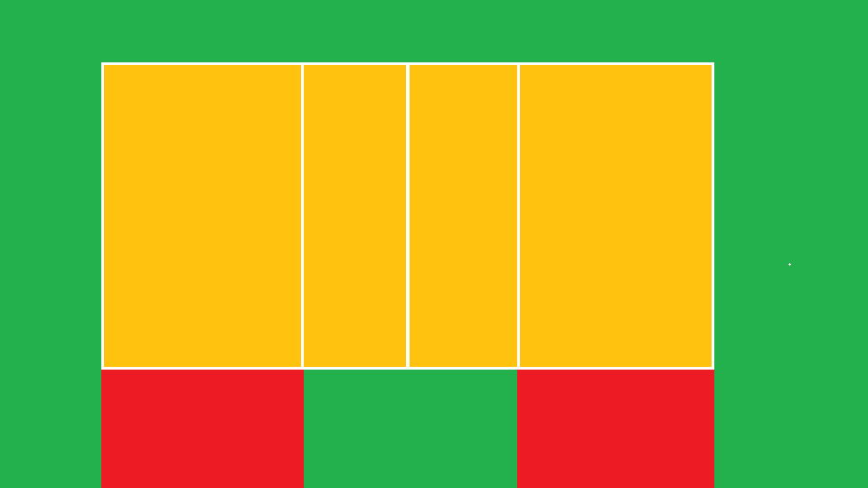 libero replacement zone of volleyball